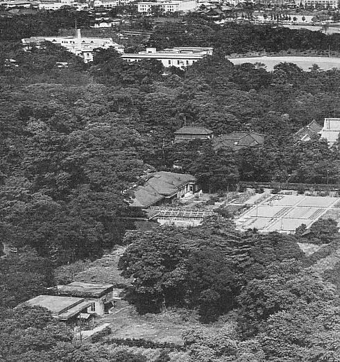 Bird's-eye view of Imperial palace in 1950s